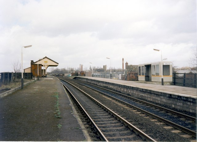 Hyde Central railway station Original description: Hyde Central station